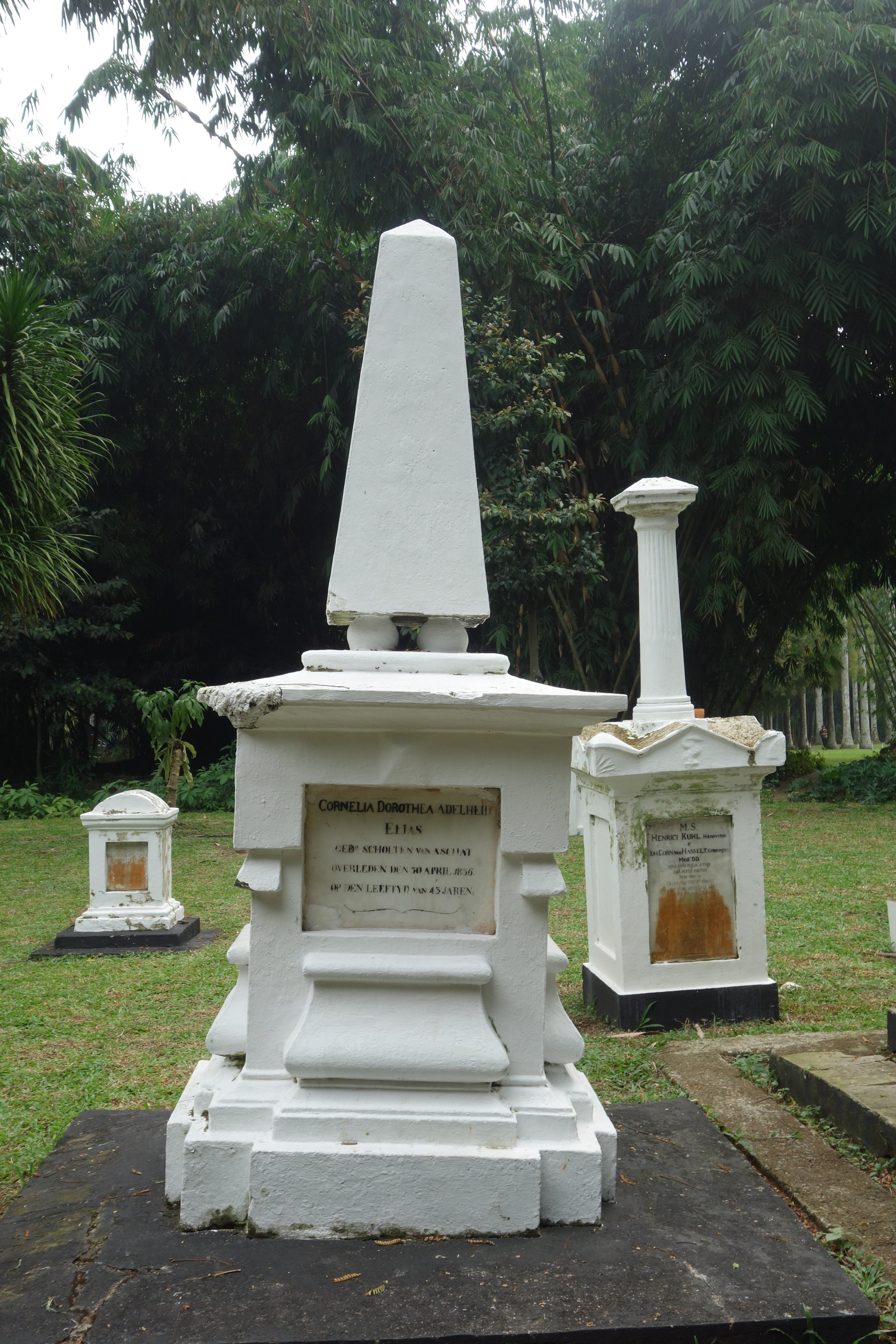 Old Dutch cemetery at Bogor Botanical Gardens (Java, Indonesia), 2018. Text reads: "Cornelia Dorethea Adelheid Elias, geb[ore]n Scholten van Aschat / overleden den 30 april 1836 / op den leeftyd van 43 jaren".